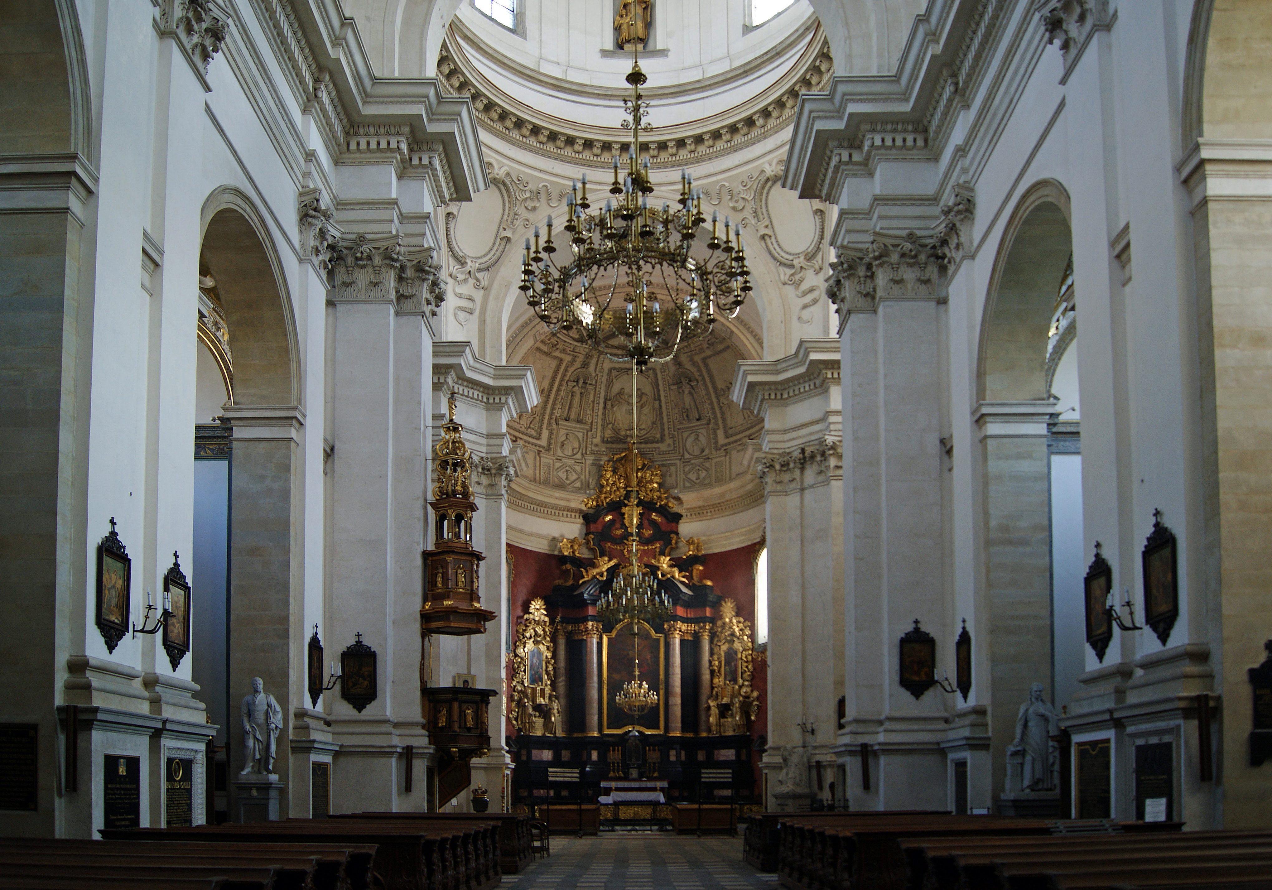 Church of Saints Apostles Peter and Paul (interior), 52a Grodzka street, Krakow, Poland